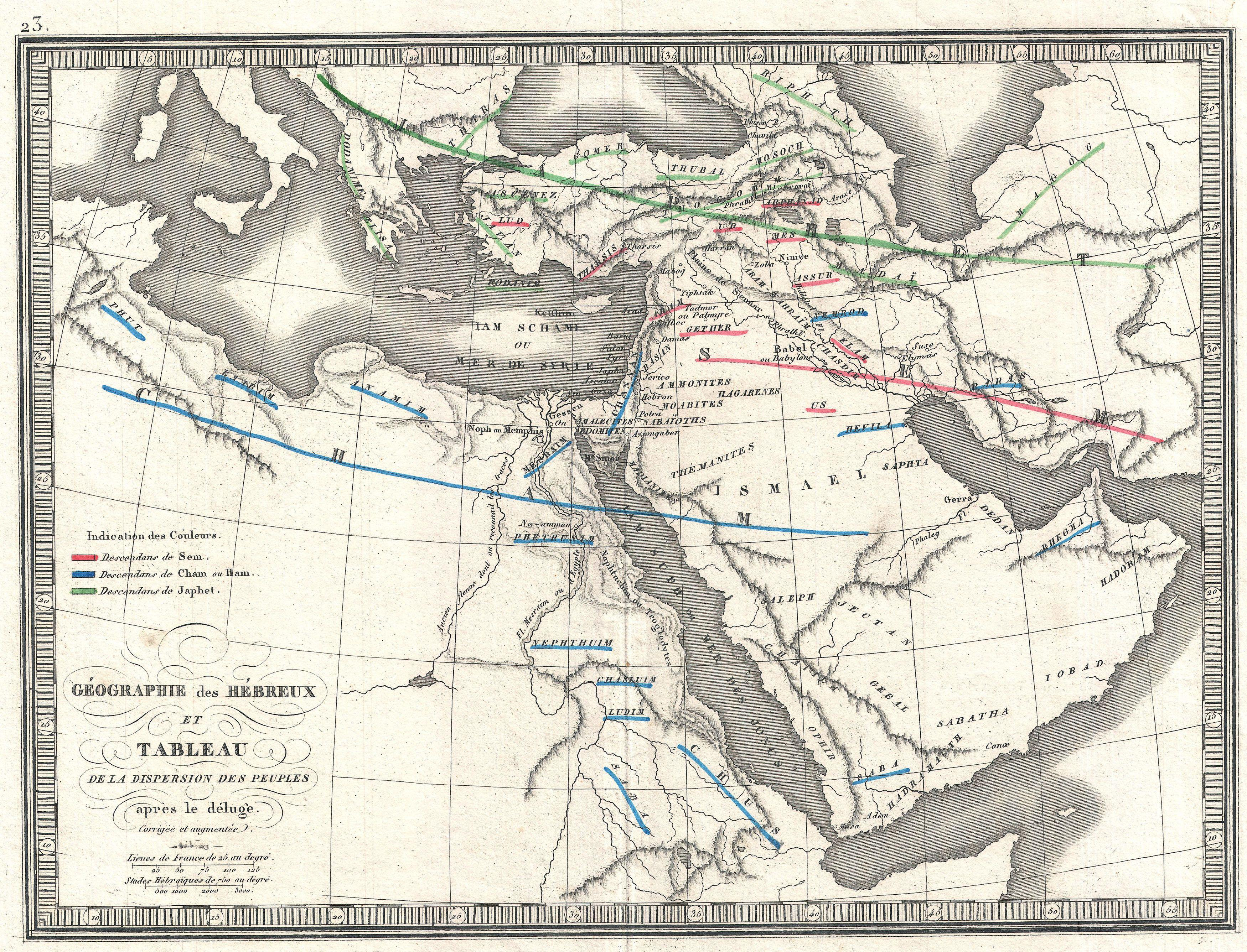 This is an 1839 C.V. Monin map of the Dispersal of the Hebrew Peoples After the Flood. This beautifully drawn map covers the lands occupied by the modern day countries of Turkey, Saudi Arabia, Egypt, Israel and Iraq. The travels the sons of Noah are indicated by color: the descendants of Sem (Shem) in red, the descendants of Ham in blue, and Japhet (Japheth) in green. Minor topographical detail shown, such as mountain ranges, and major cities labeled. Two scales shown in the lower left quadrant.